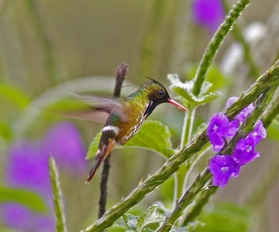 Black-crested Coquette taken at Rancho Naturalista, Costa Rica.